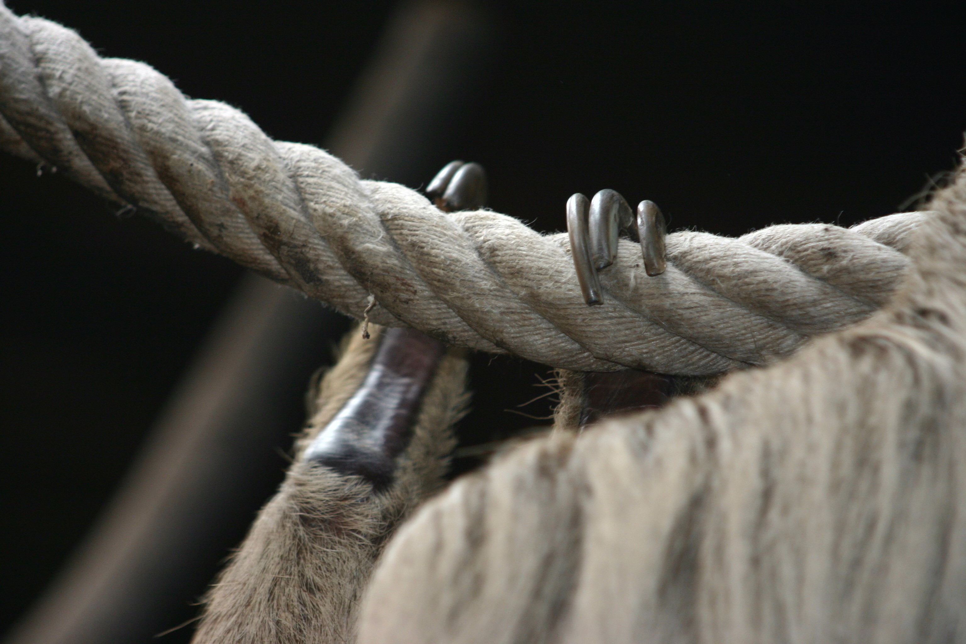 Choloepus_didactylus